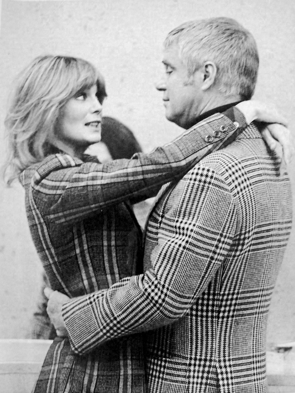 Photo of George Peppard as Banacek and guest star Linda Evans from the television program Banacek.